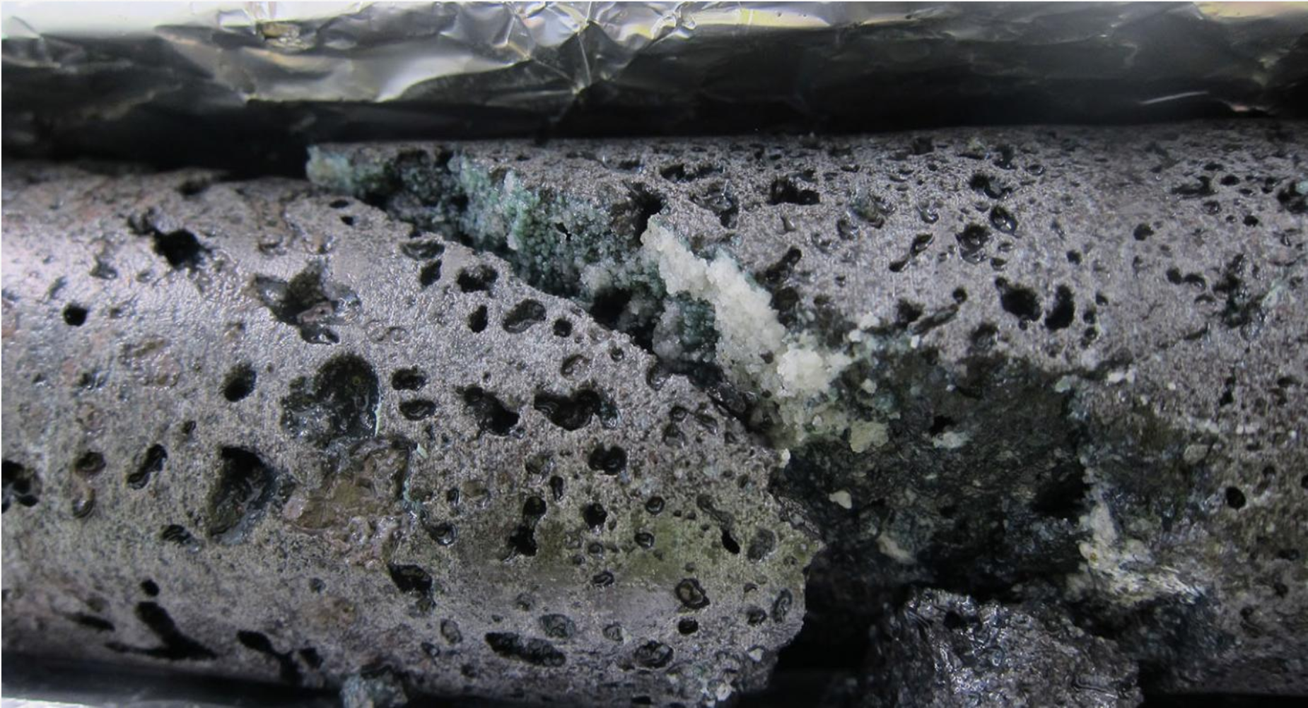 Image of calcite formed in basalt due to CO2-charged water-rock interaction at the CarbFix site. Photo Credit: Sandra Ósk Snæbjörnsdóttir